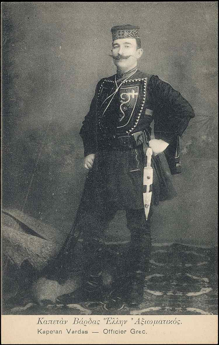 Greek General Georgios Vardas (1871-1942) during the Macedonian Struggle